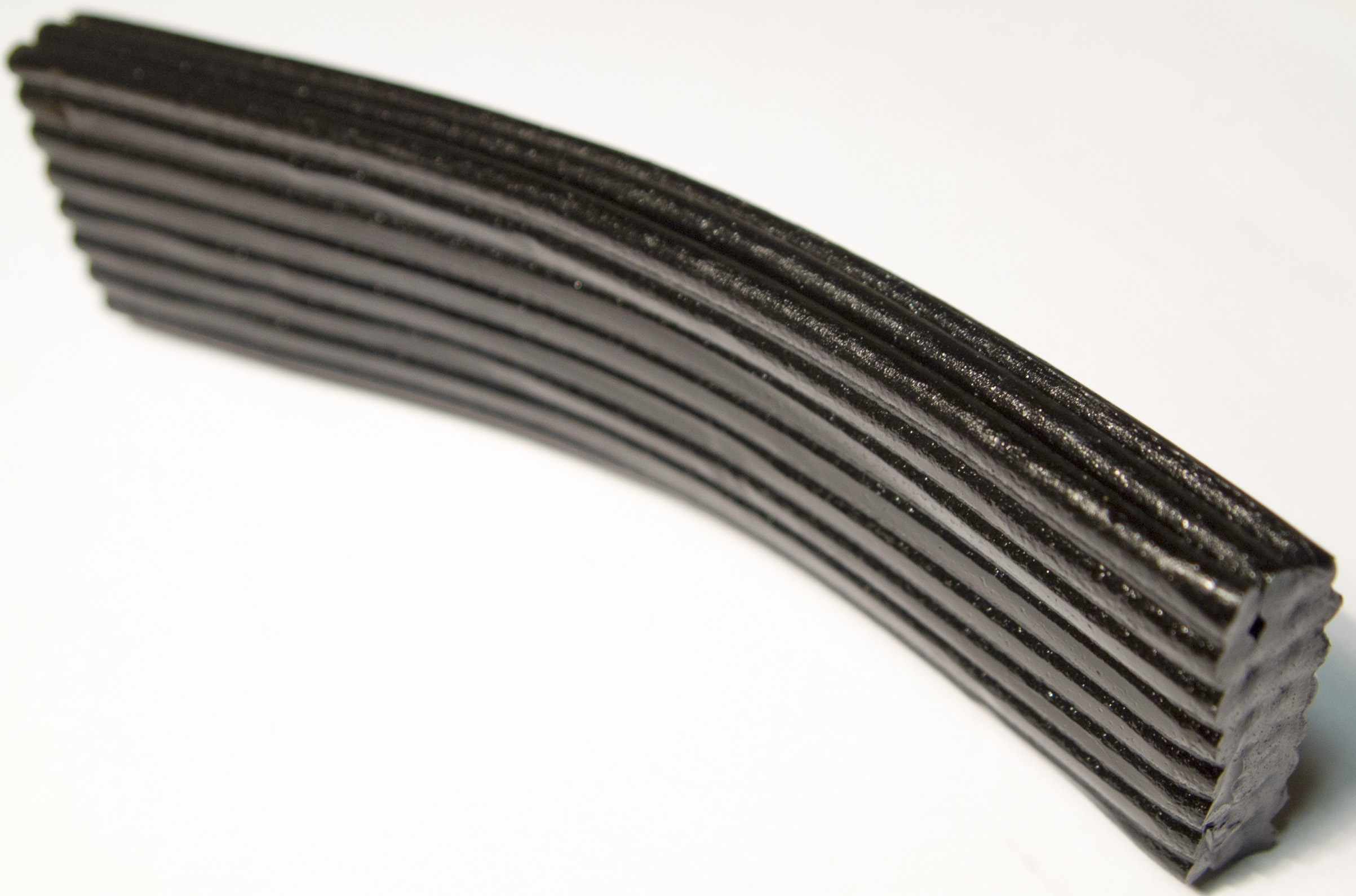 Salmiakki liquorice carpet "Salmiakkimatto" producted by Halva.